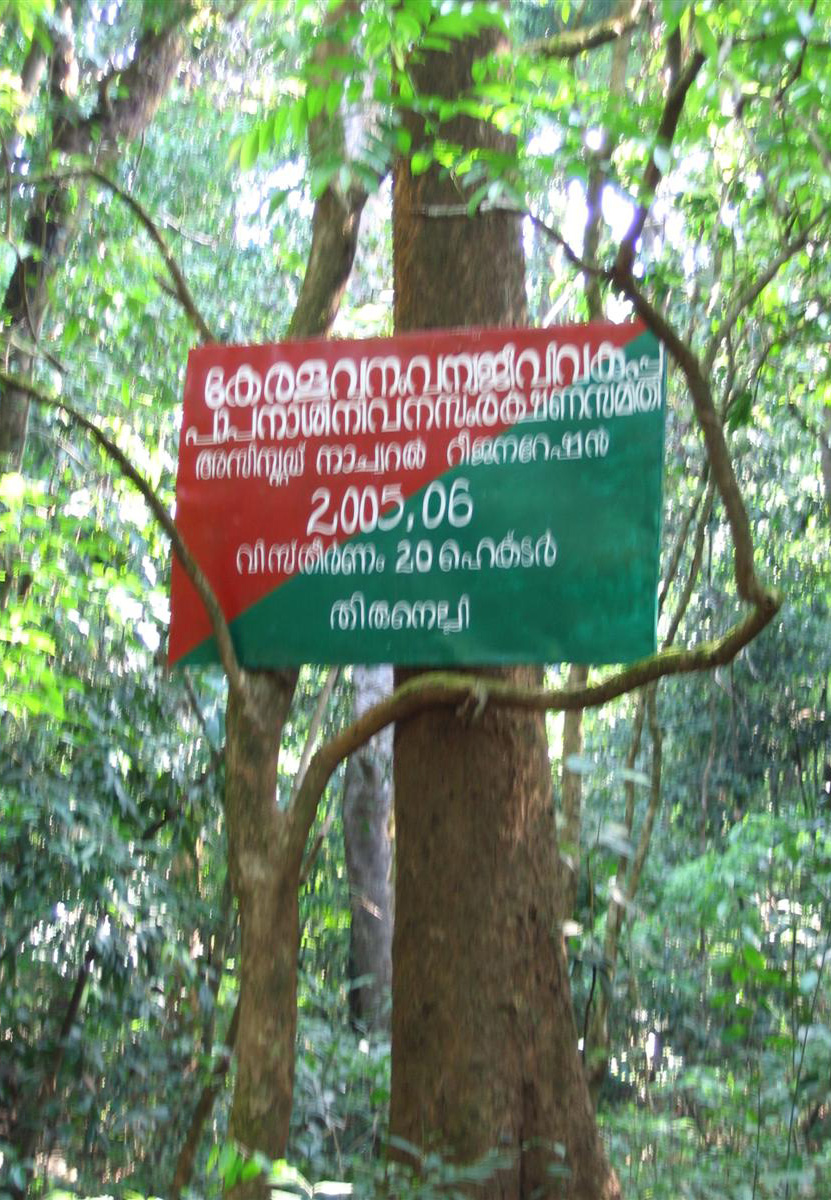 The board reads: Kerala Forest: Pakshipathalam Forest Protection Organization: Assistant Natural Regeneration Office. Area: 20 Hectres, Thirunelli